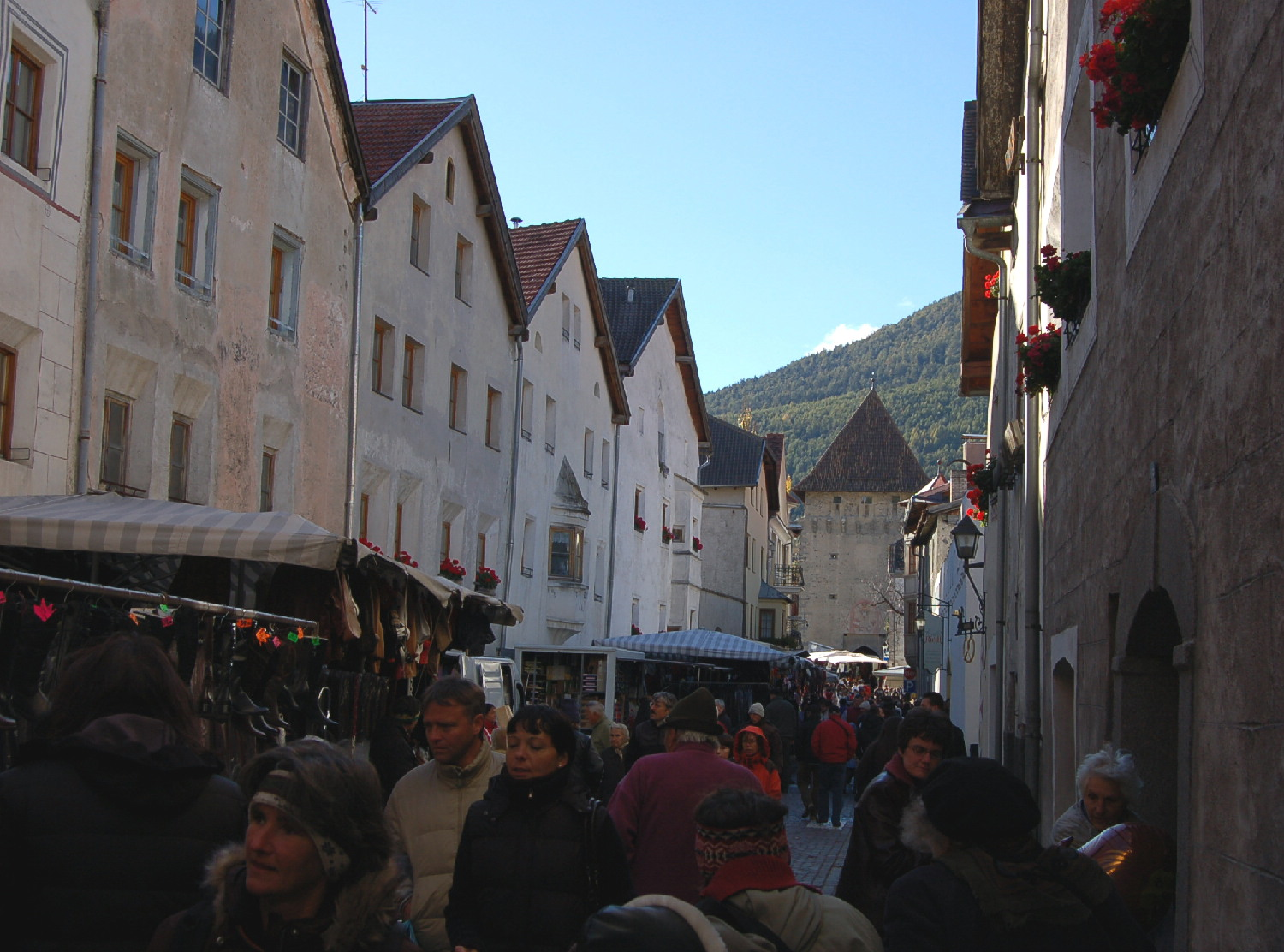 "Sealamorkt" (annual market held on All Souls' Day) in Glurns, Southern Tyrol